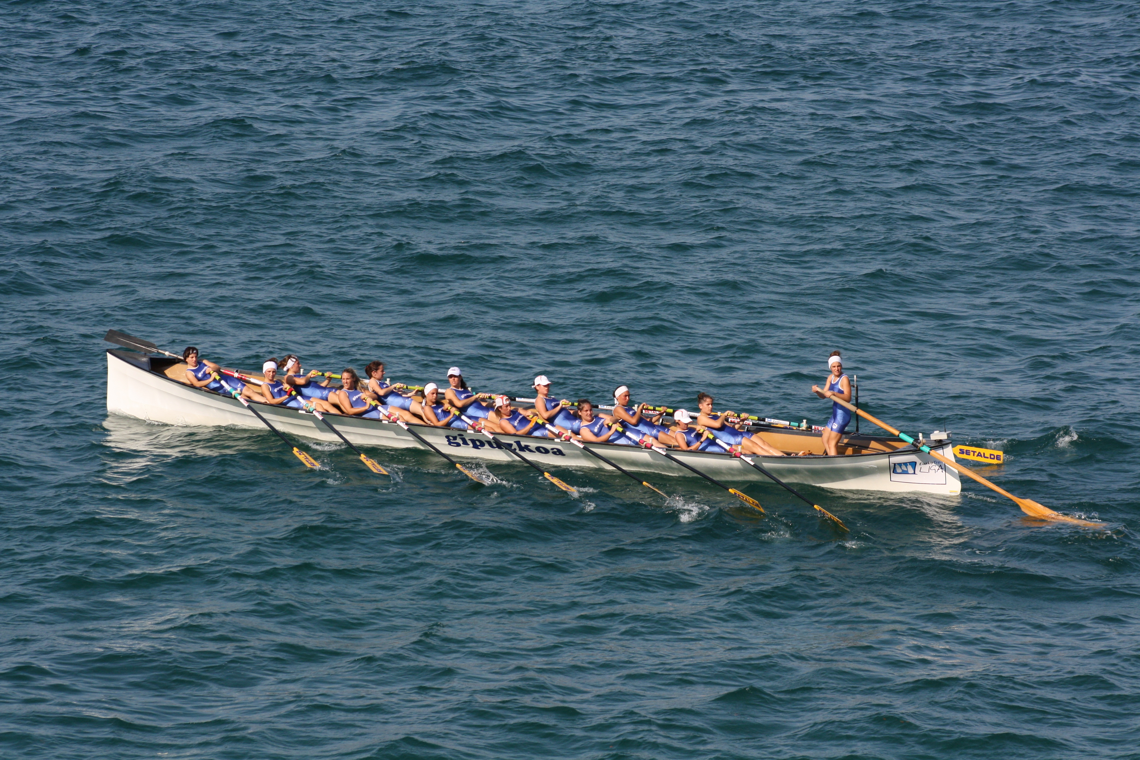 A female traineru taking part in estropadak in Zarautz